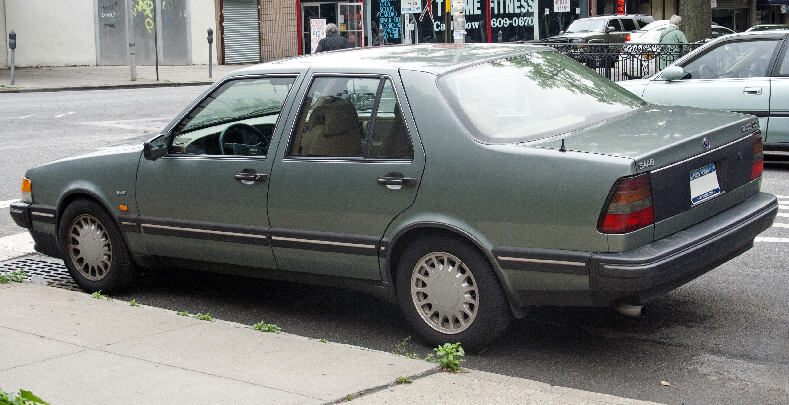 Late 1990 Saab 9000 CD, one of the first naturally aspirated CDs to be sold in the US. It has the 150 hp B234I fuel injected inline-four, coupled to a four-speed automatic